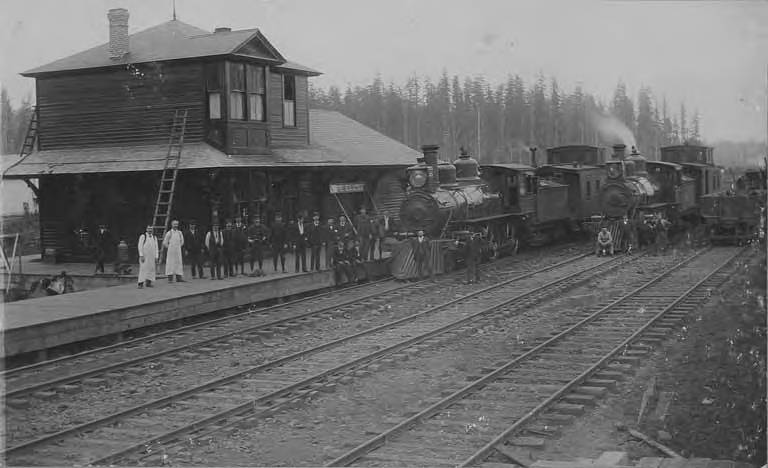 Written on page: 61 .PH Coll 16.16 Photographs document the construction of the Yakima and Pacific Coast Railroad from Chehalis to South Bend, Washington sometime between 1890 and 1892.